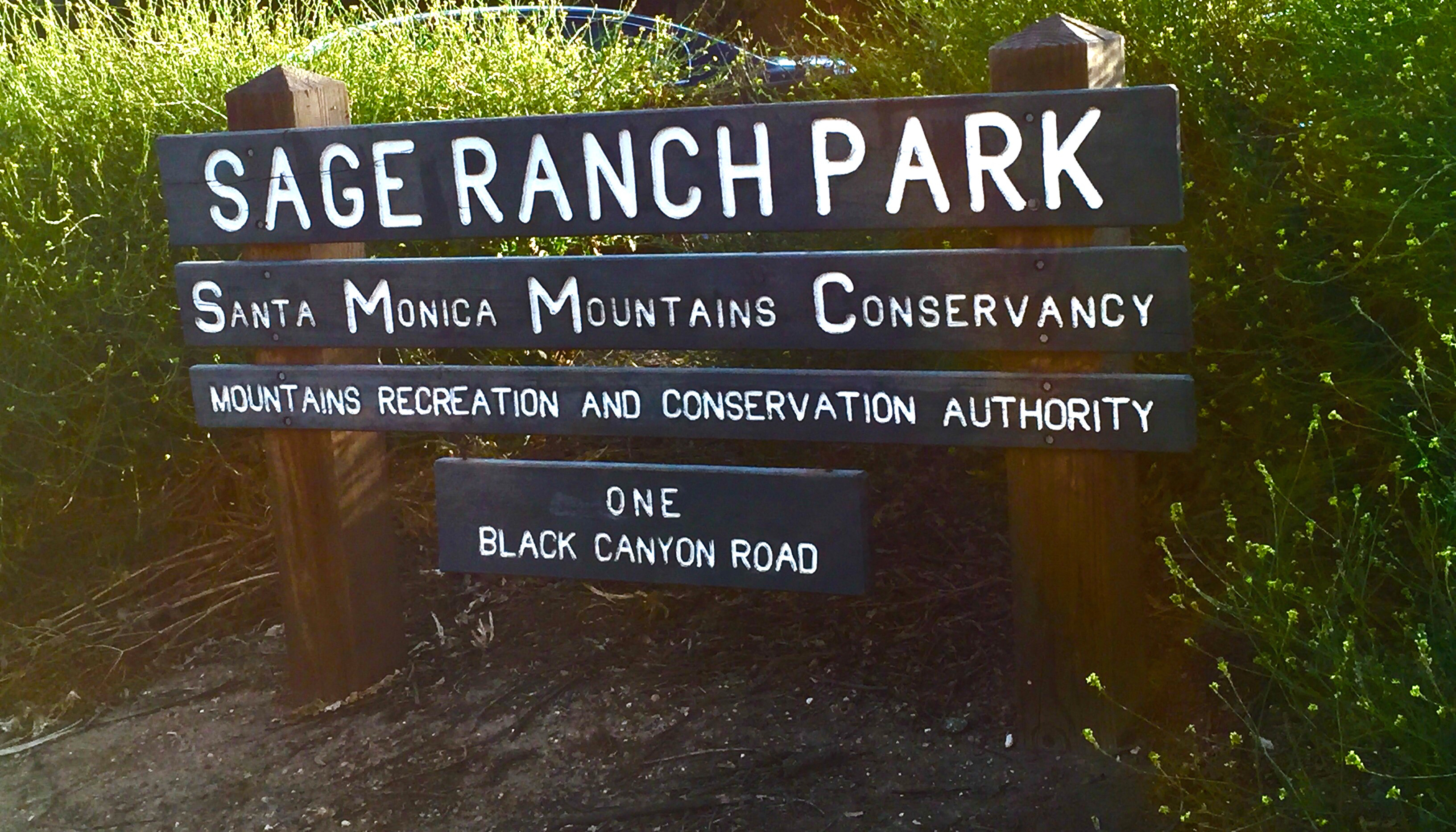 Entrance sign to Sage Ranch Park in eastern Simi Valley, CA.